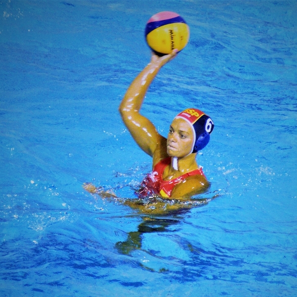 Jennifer Pareja at FINA Aquatics World Championships in Barcelona